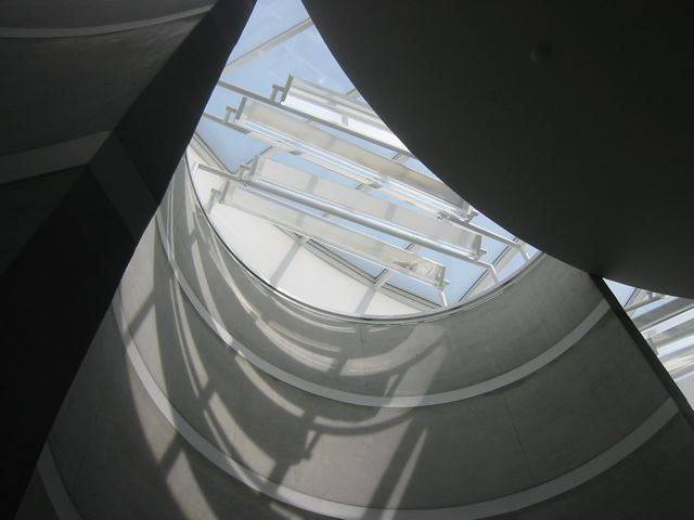 Harvard Business School 1959 Chapel. Photo taken by me.